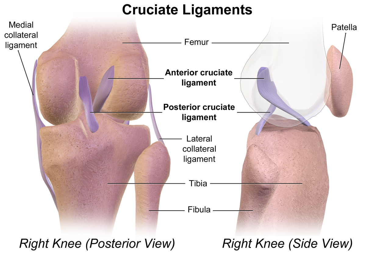 See a full animation of this medical topic